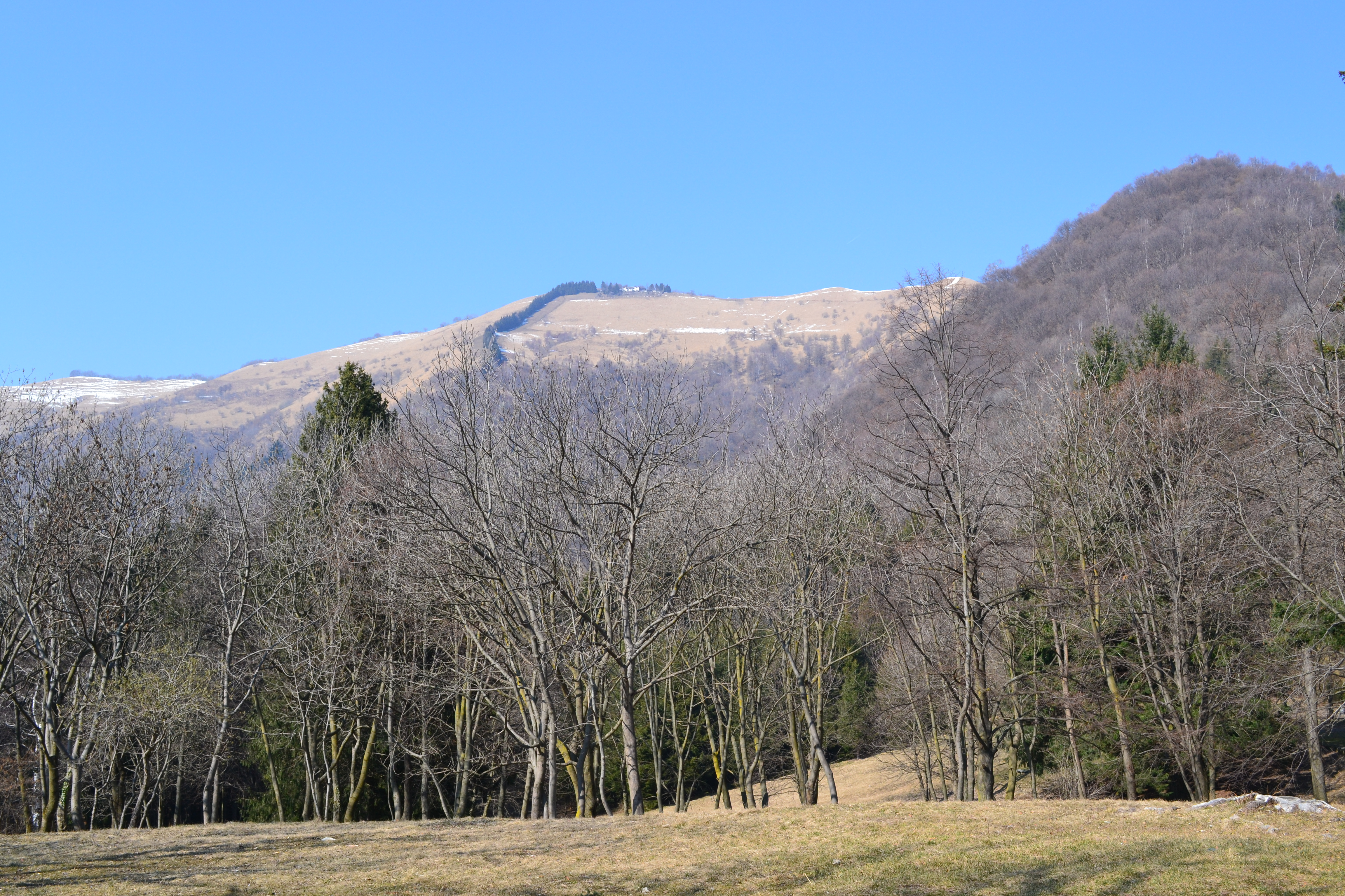 view of Bollettone mountains from Alpe del Vicerè